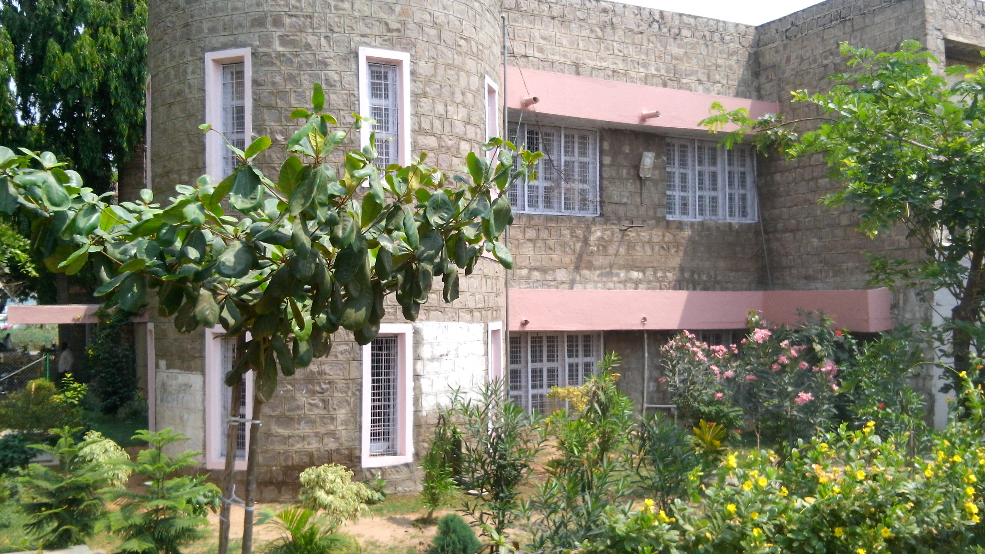 APSRTC (Andhra Pradesh State Road Transport Corporation) Bus Depot in Penukonda